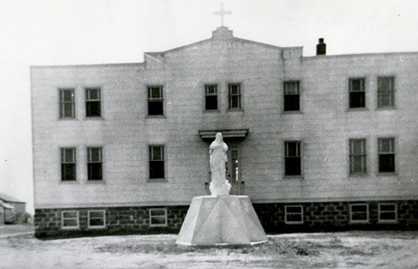 The Assumption convent in Bas-Caraquet, New Brunswick. Both the author and the year the pohoto was taken are unknown.